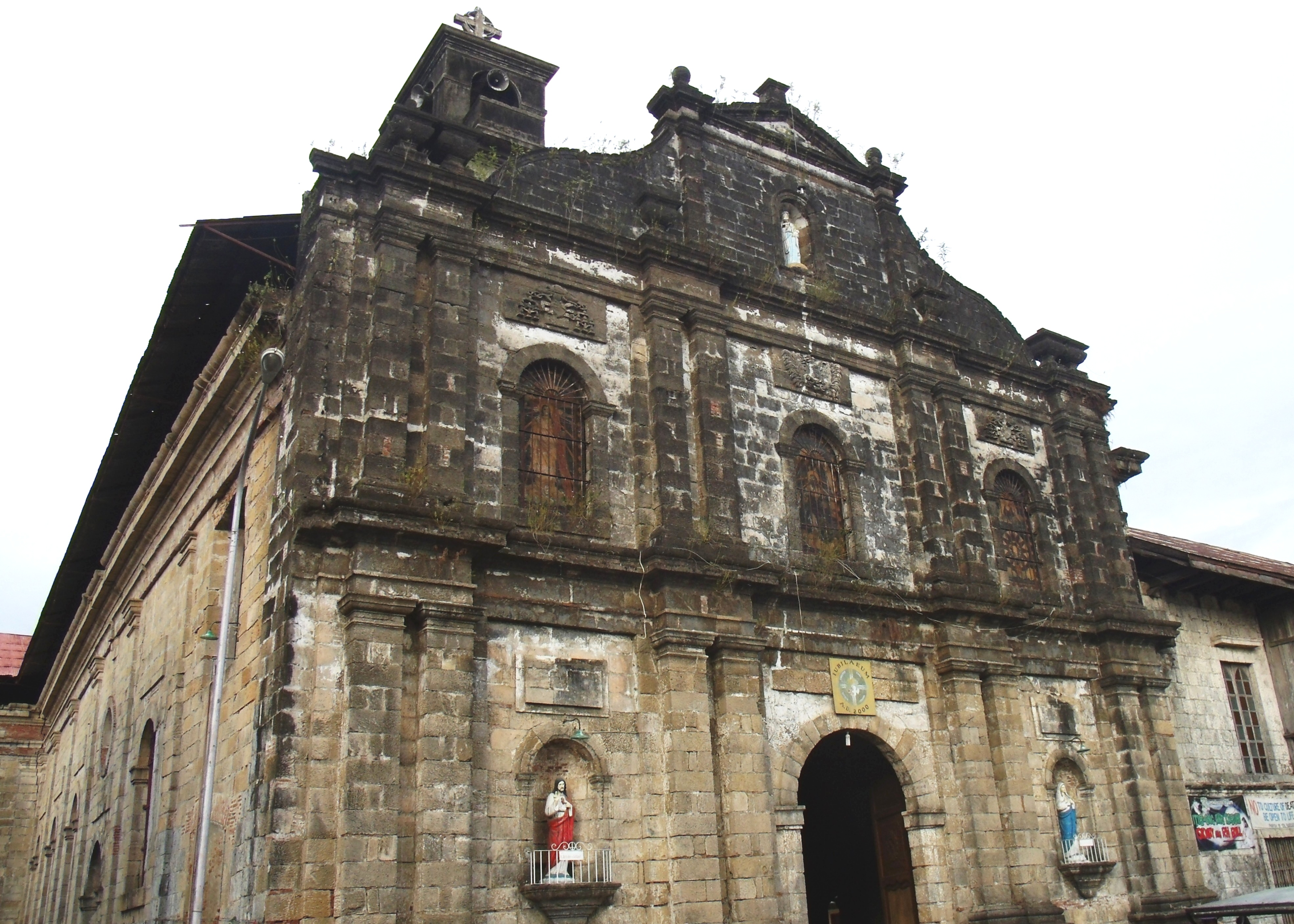 The Facade of Sta. Barbara in Iloilo Province, Philippines, is an excellent example of the Filipino baroque colonial architecture. Completed in 1878, the church is made of adobe, corals and red bricks.